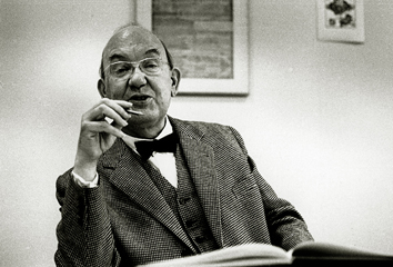 Jan Tschichold (2 April 1902 Leipzig, Germany – 11 August 1974 Locarno, Switzerland) was a typographer, book designer, teacher and writer.